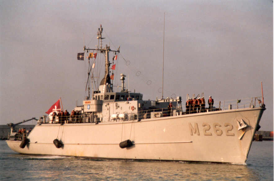 TCG Enez (M-262), Málaga.